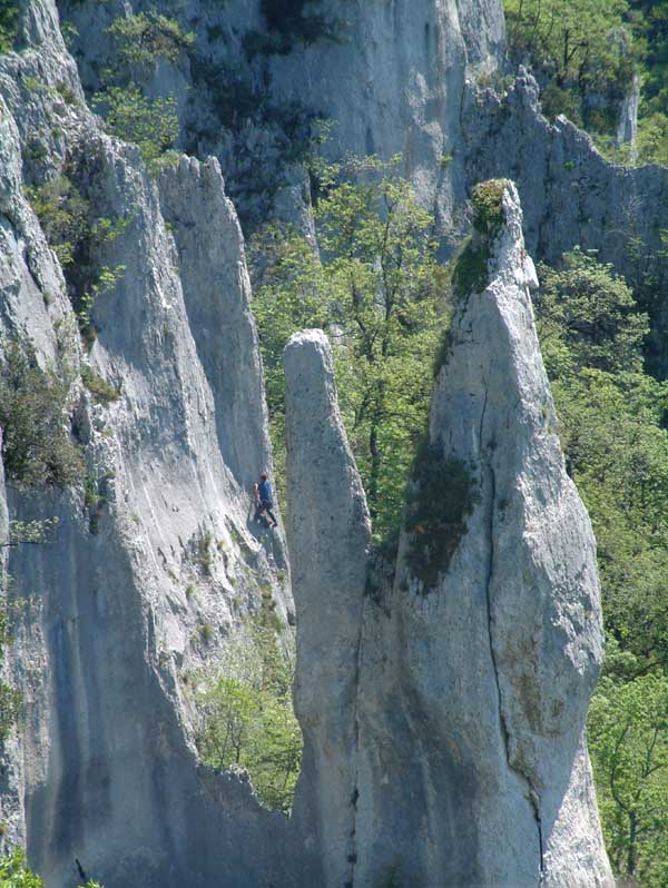 Vranjska draga, a valley situated on the north-west slopes of the Učka (Ucka) mountain, Croatia. Free climbing area. K. Korlević (Korlevic)